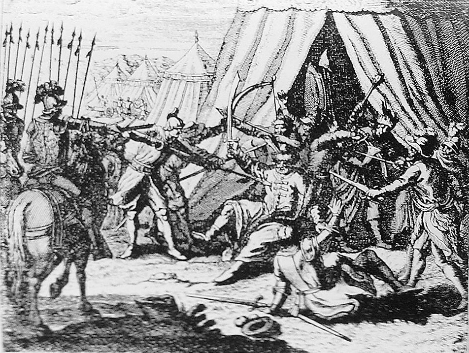 The murdering of Michael the Brave (8.VIII.1601)